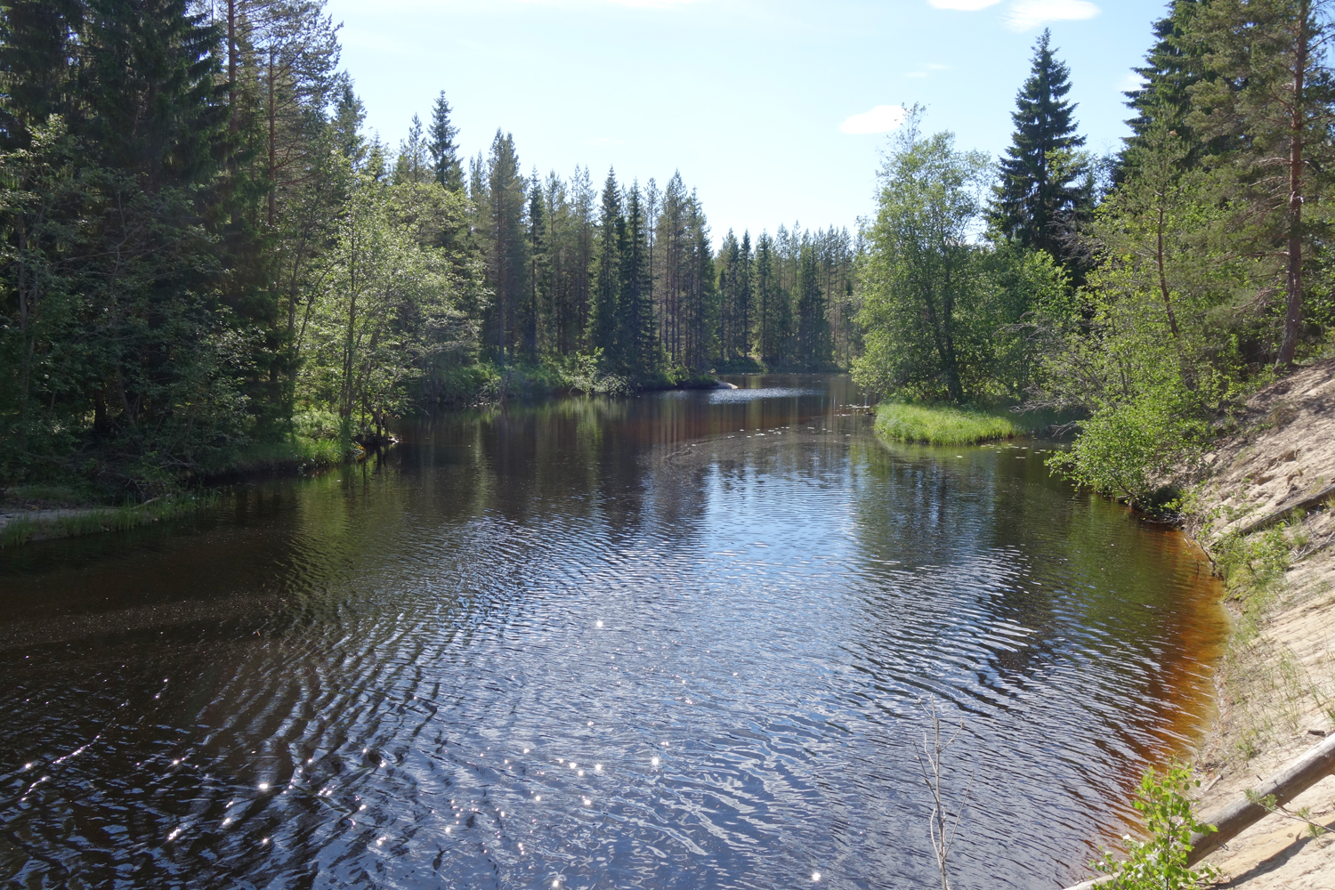 River Leduån in Nordmaling Municipality, about 500 m upstream Leduåfors, where there was a sawmill and a mill until 1886.